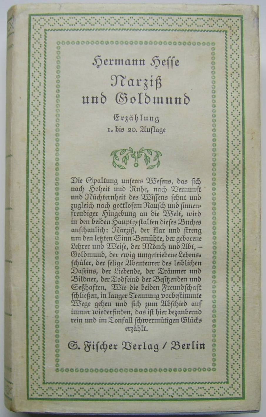 First Edition 1930 Fischer Verlag Berlin